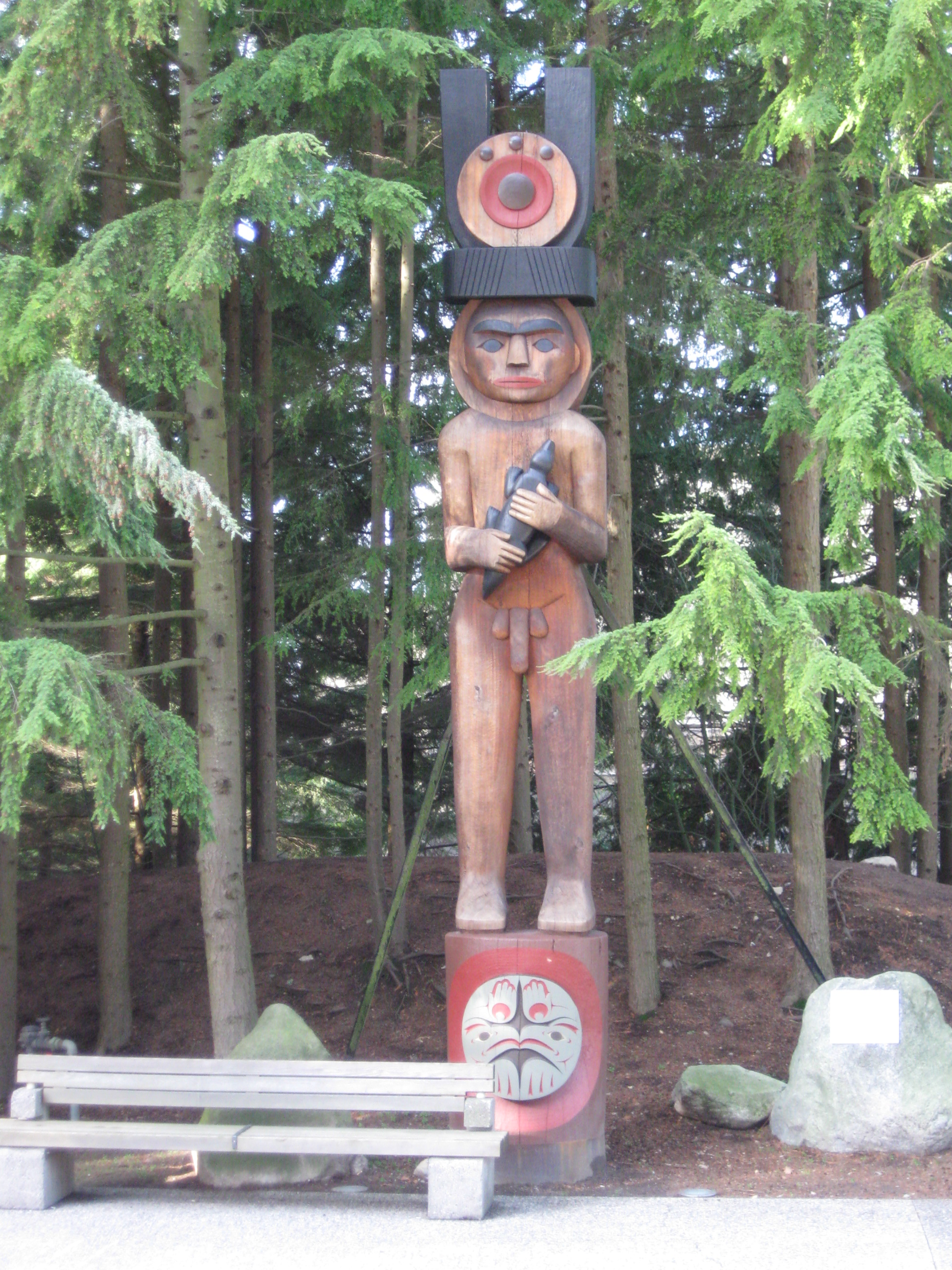 This is the 'Imich Siiyem' figure which was created by the notable Musqueam native Indian artist, Susan Point. The figure recognizes the estimated 10,000 years the Indian ancestors have lived on their traditional lands. It holds a fisher, which has the ability to carry power in positive or negative forms while the head of the figure is adorned with celestial images. It was first unveiled in March 1997 and is presently situated near the entrance to the internationally renowned UBC Museum of Anthropology in Vancouver, Canada.